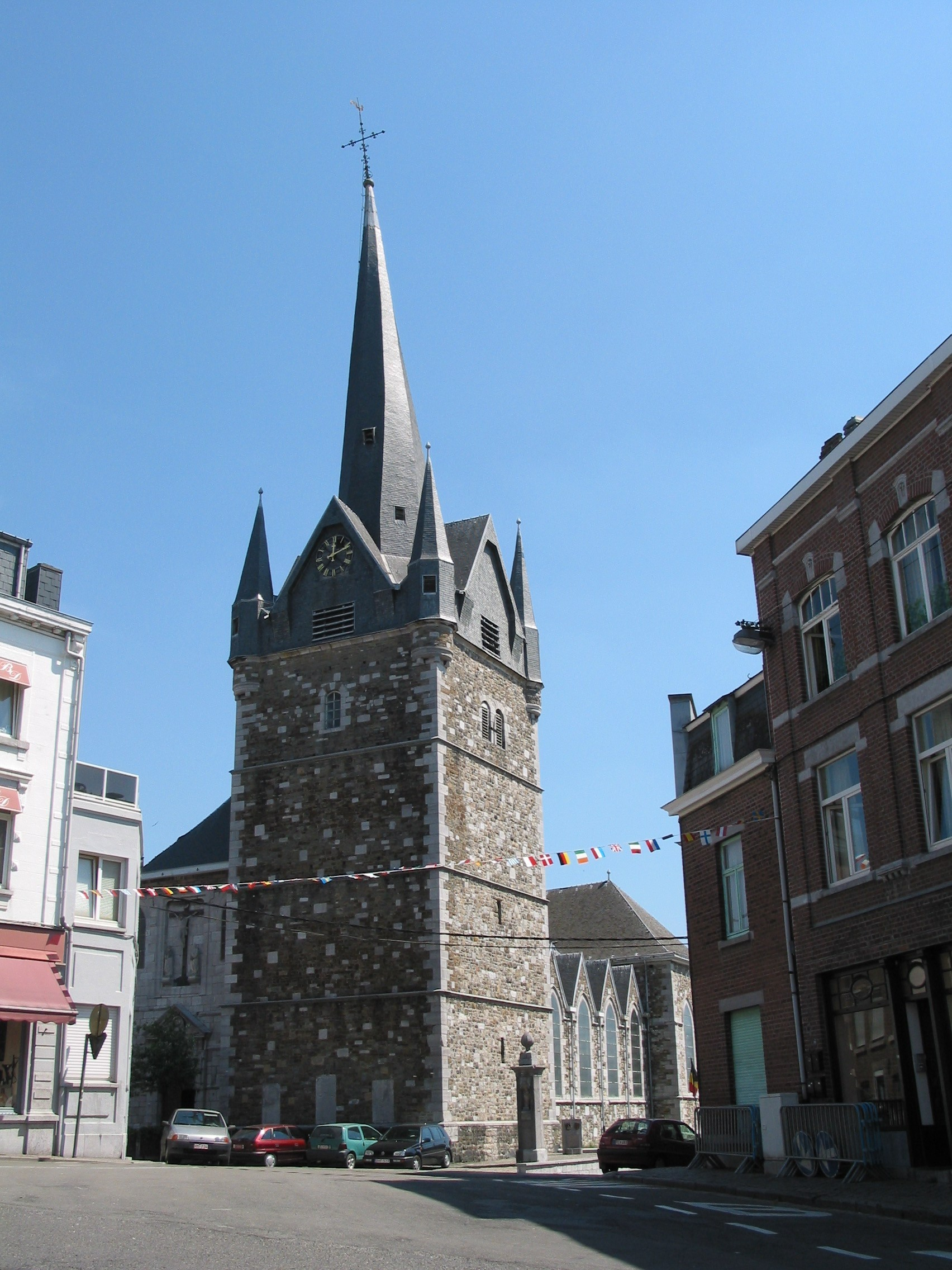 Herve (Belgium), the Saint John the Baptist church and his grim bell tower.